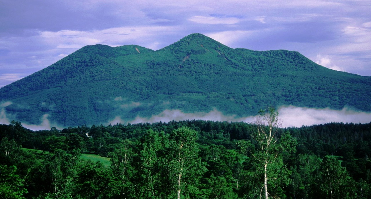 Mount Kurohime from Mount Hiuchi